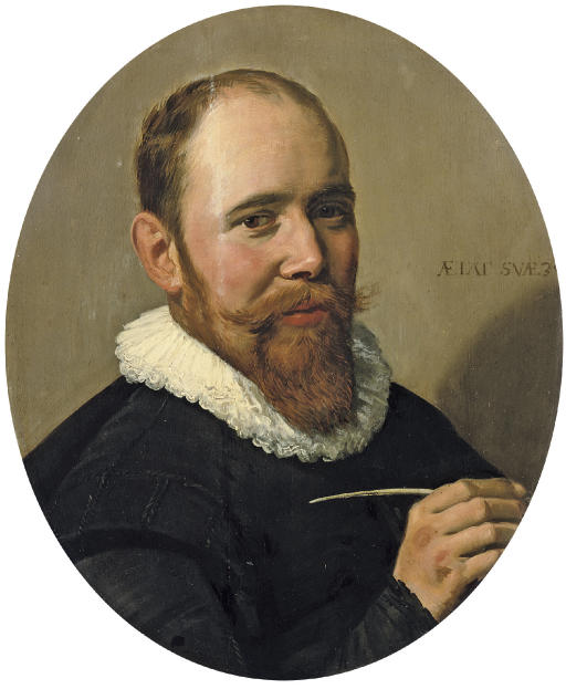 Portrait of Willem Warmondt (1583-1649) 'AETAT SVAE 30' This image is available from the Netherlands Institute for Art Historyunder digital ID 26649. This tag does not indicate the copyright status of the attached work. A normal copyright tag is still required. See Commons:Licensing.